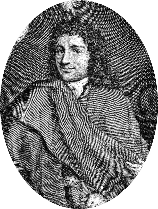 Francis van Bossuit (1635-1692) c. 1710 - c. 1720